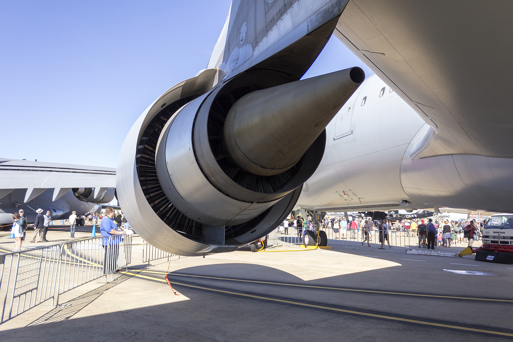 General Electric CF6-80E1A3 fitted to Royal Australian Air Force (A39-002) Airbus KC-30A (A330-203MRTT) on display at the 2013 Avalon Airshow.